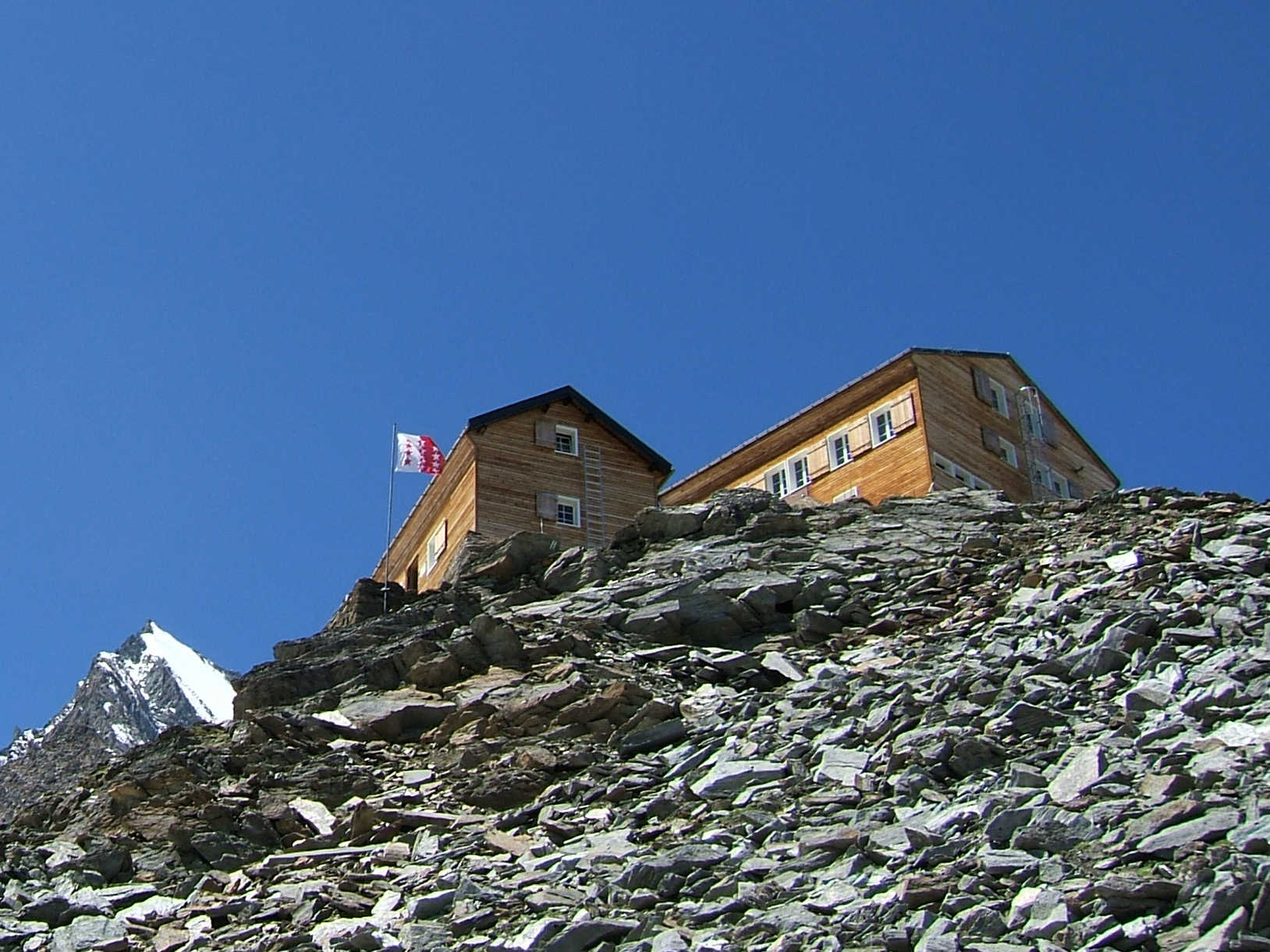 Mischabelhütten on last part of ascent, on the left Lenzspitze